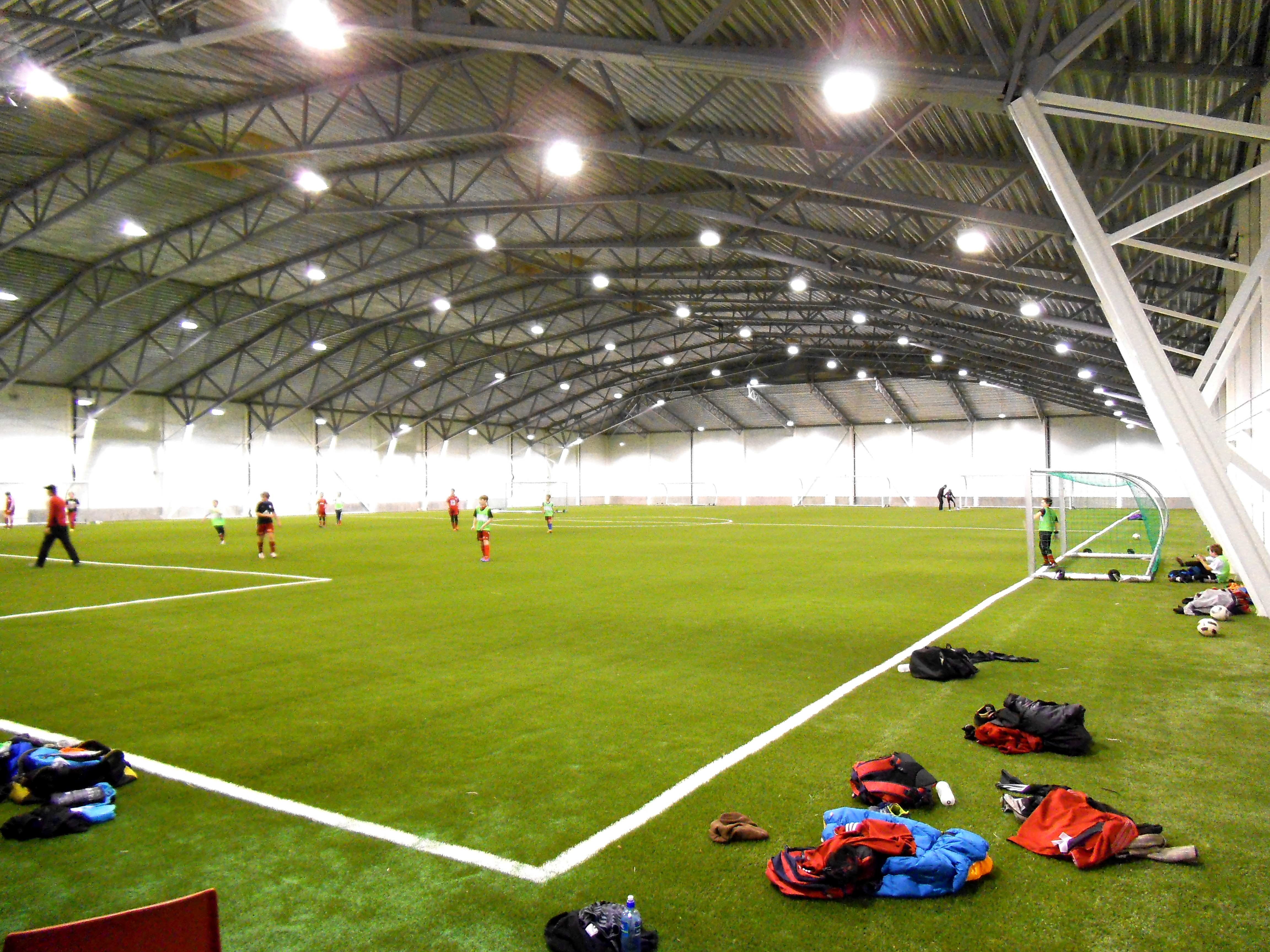 Bankhallen, an indoor sports arena in Melhus. "Åpen dag"